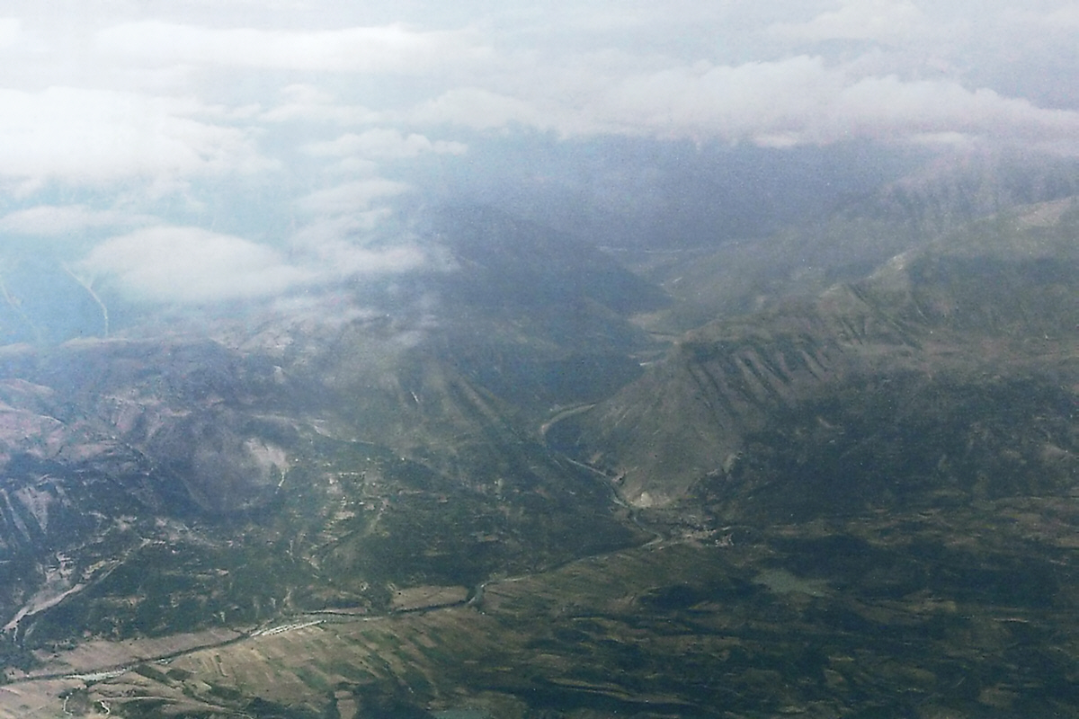 Mountains in Southern Albania: Vjosa River with Gorge of Këlcyra